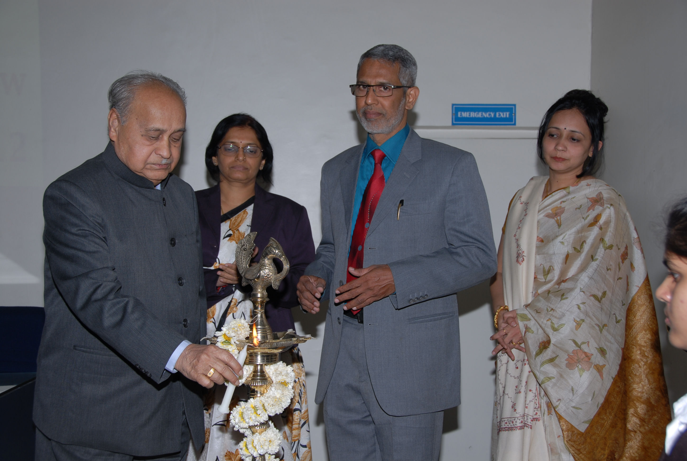 Technology Moot 2012 Hon. Dr. Justice M. Rama Jois, Then Rajya Sabha Member, former Chief Justice, Punjab & Haryana High Court, former Governor Jharkhand & Bihar